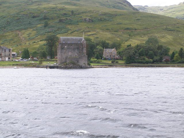 Carrick Castle Loch Goil Taken from the Waverley, the last sea going paddle steamer in the world